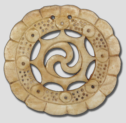 A Mississippian culture Nashville I style shell gorget found by William Myer at the Castalian Springs Mound Site in Sumner County, Tennessee and now part of the collection of the National Museum of the American Indian.